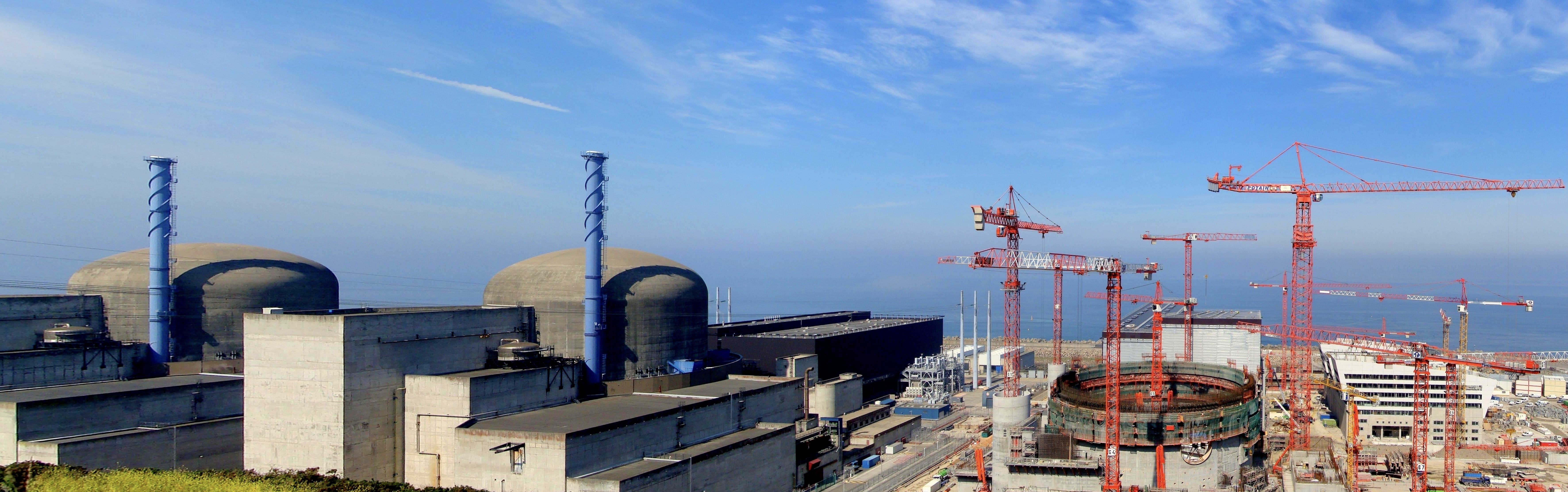 Flamanville NPP, France